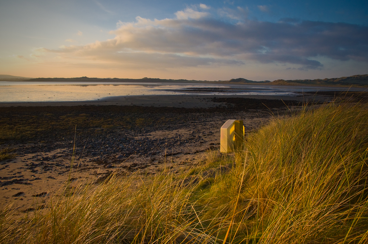 winter evening vista of Culleenamore strand, Sligo, Northest of Ireland